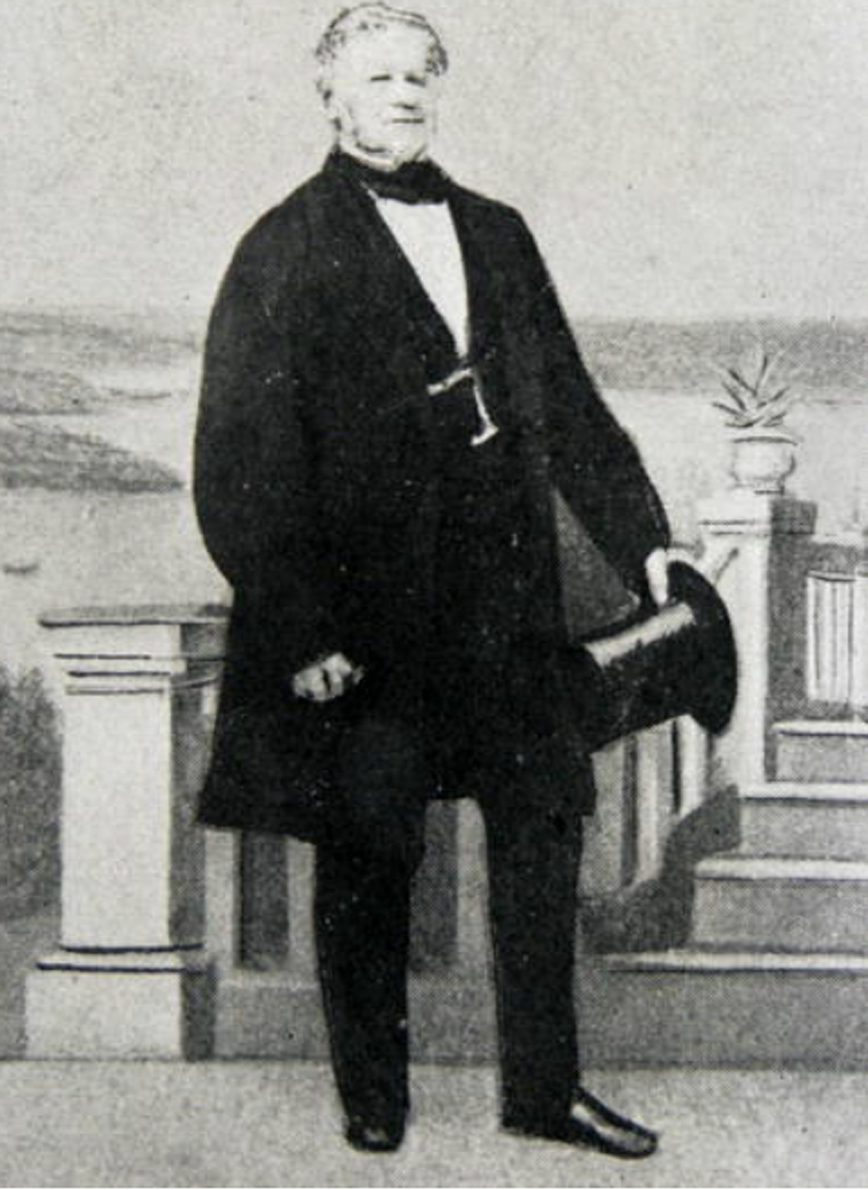 John Hosking owner of Strickland House, Sydney circa 1860